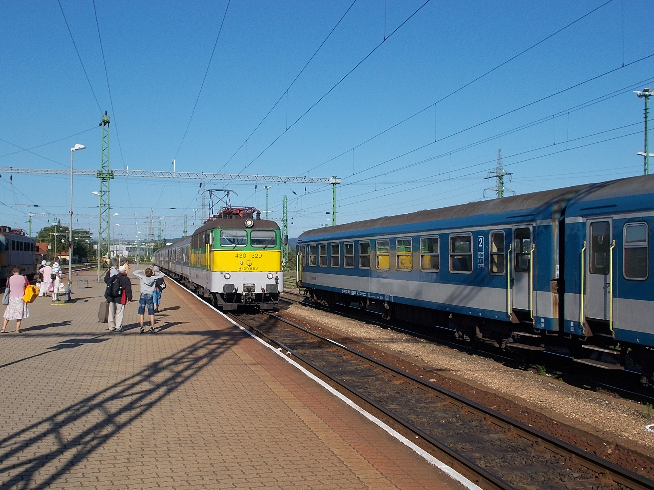 Veszprém (Jutas) railway station. H-GySEV 430 329 coming from Szombathely. - Jutasi út, Veszprém, Veszprém County, Hungary.